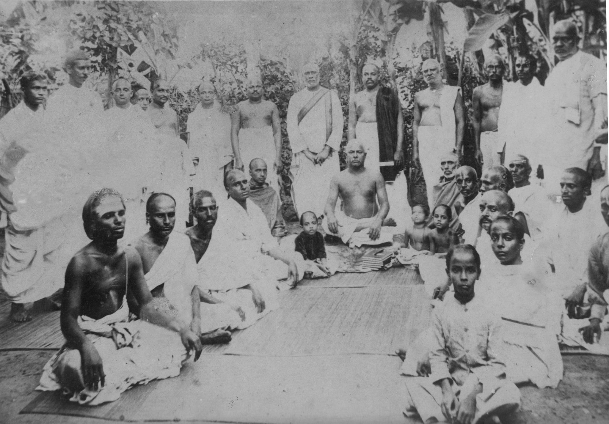 This image taken in kumbhakonam before starting yoga/prayer on purticulor day.